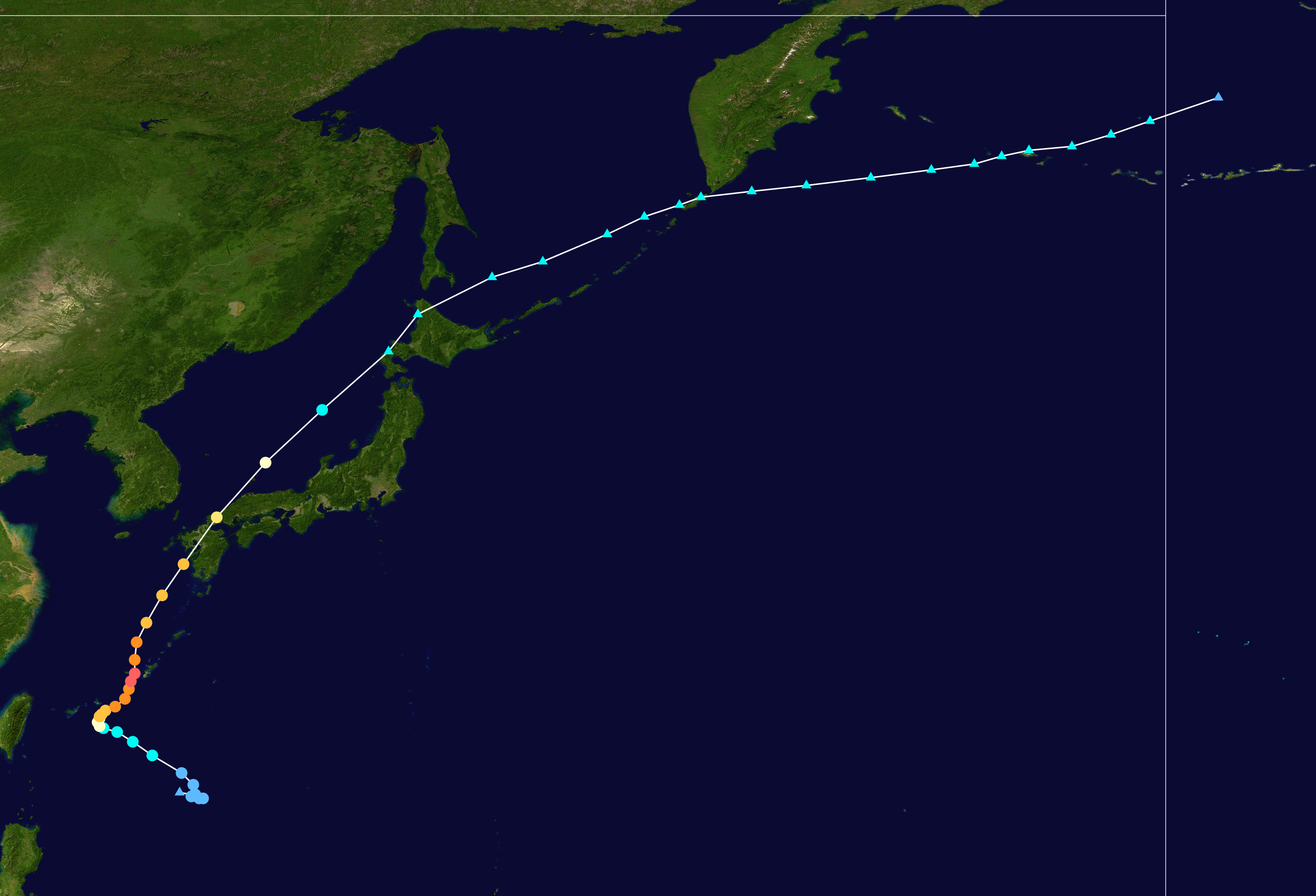 Track map of Typhoon Bart of the 1999 Pacific typhoon season. The points show the location of the storm at 6-hour intervals. The colour represents the storm's maximum sustained wind speeds as classified in the Saffir–Simpson scale (see below), and the shape of the data points represent the nature of the storm, according to the legend below. Saffir–Simpson scale Tropical depression≤38 mph≤62 km/h Category 3111–129 mph178–208 km/h Tropical storm39–73 mph63–118 km/h Category 4130–156 mph209–251 km/h Category 174–95 mph119–153 km/h Category 5≥157 mph≥252 km/h Category 296–110 mph154–177 km/h Unknown Storm type Tropical cyclone Subtropical cyclone Extratropical cyclone / Remnant low / Tropical disturbance / Monsoon depression